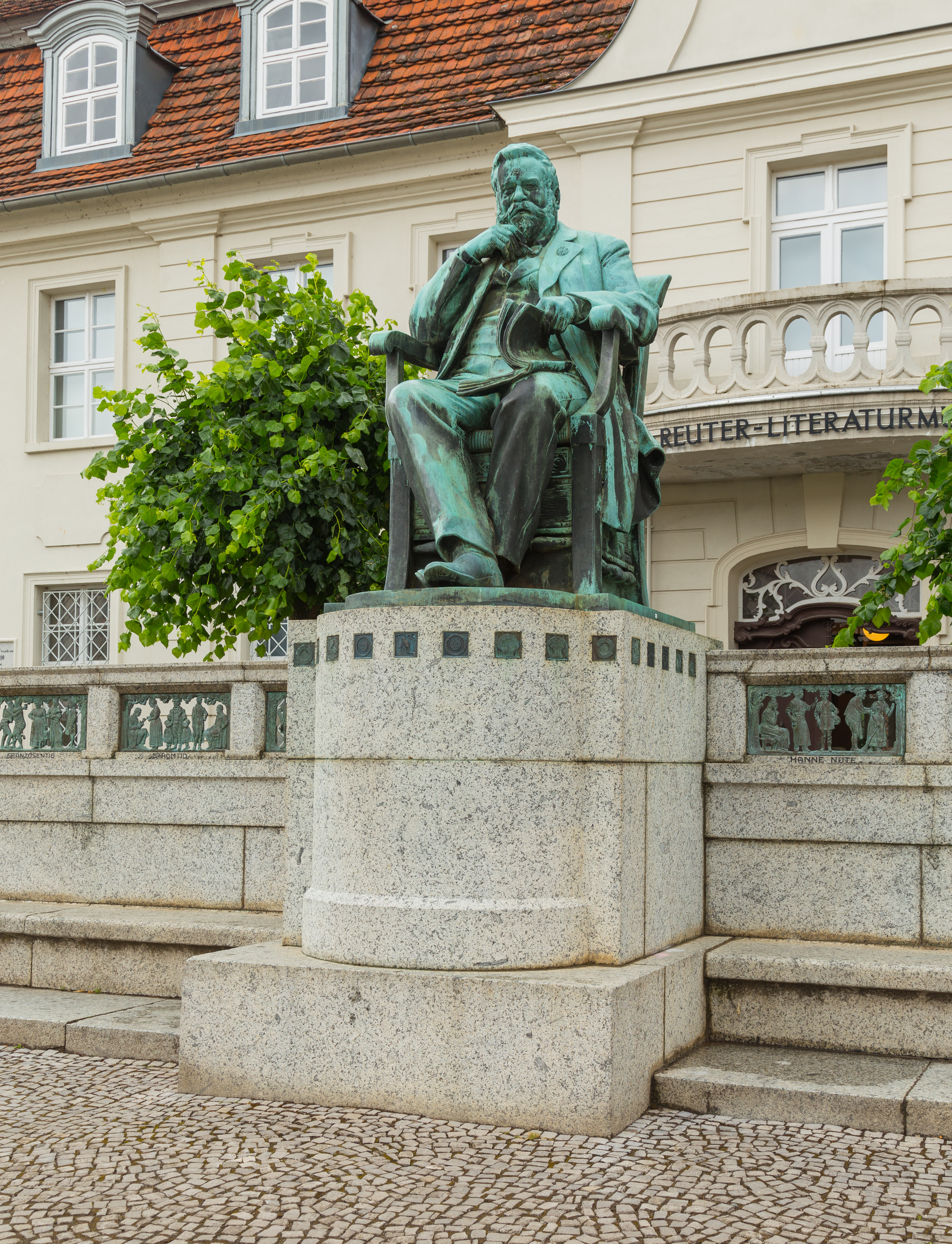 Part of the Fritz Reuter Memorial (Fritz-Reuter-Denkmal) in the city centre of Stavenhagen, Landkreis Mecklenburgische Seenplatte, Mecklenburg-Vorpommern, Germany. The listed memorial is situated on the market square in front of the Fritz Reuter Literature Museum (Fritz-Reuter-Literaturmuseum).